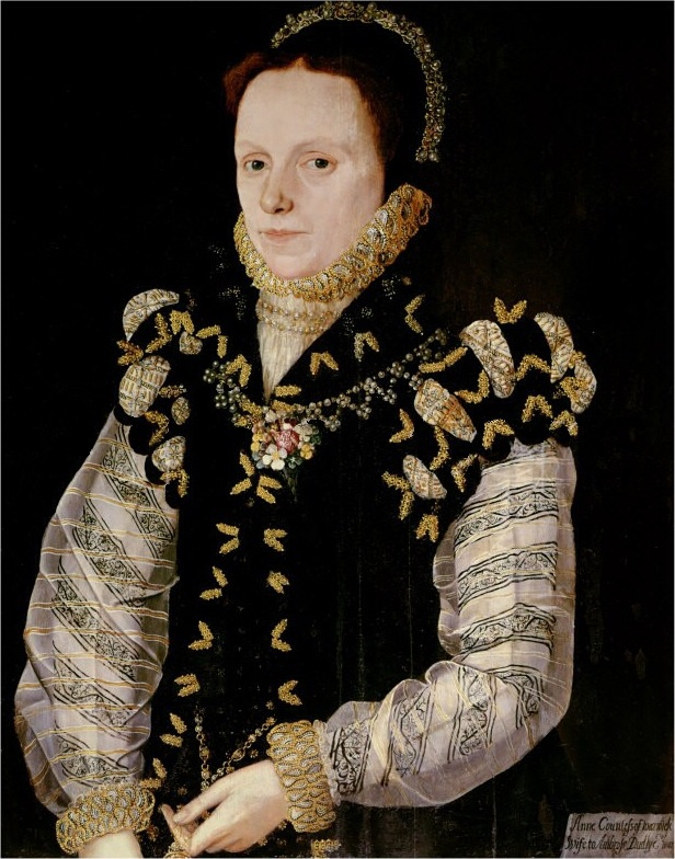 Portrait of Anne Russell, Countess of Warwick.